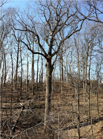 The Queens Giant, Alley Pond Park, Queens, New York. 03/24/2013